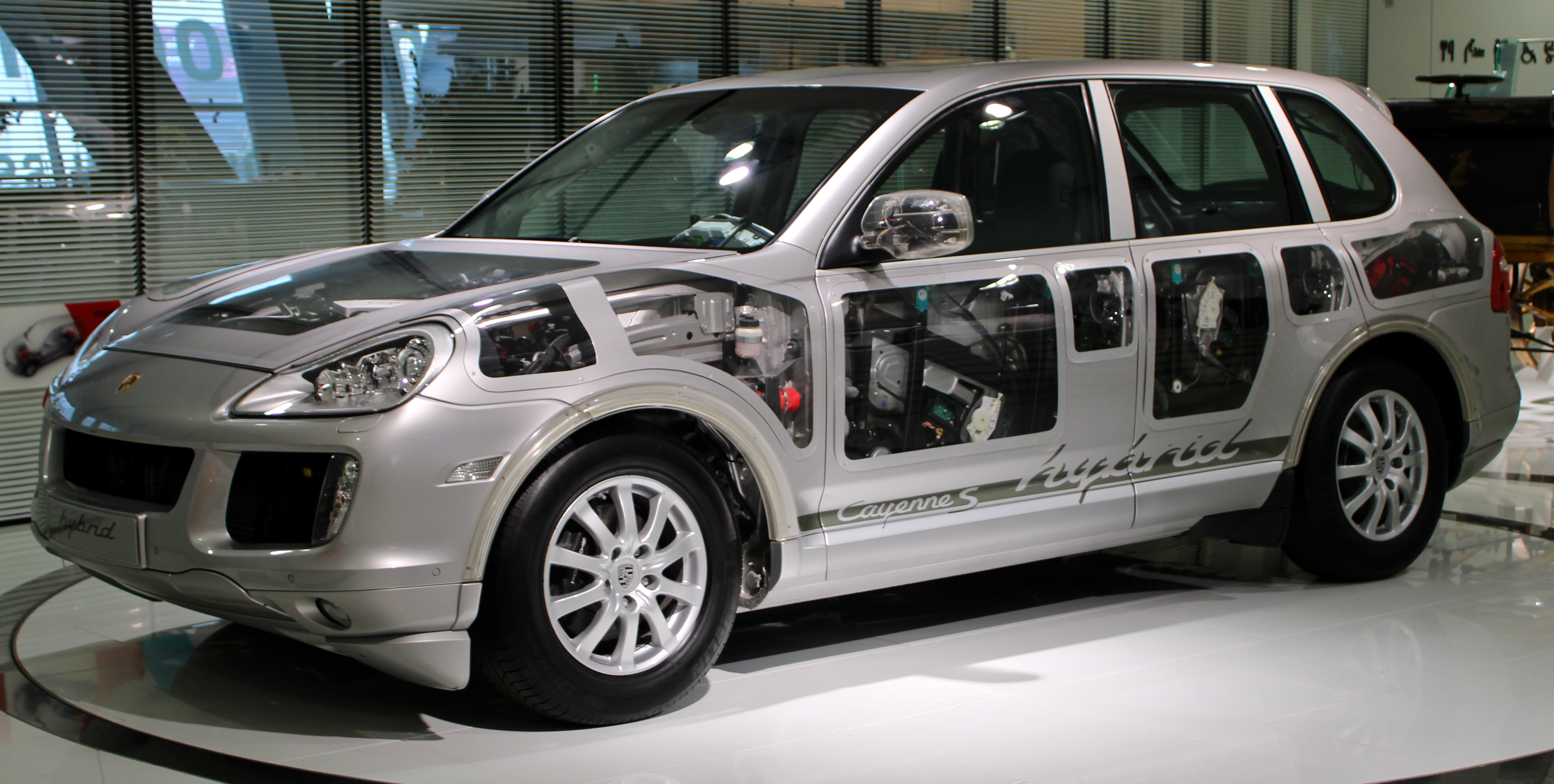 Porsche Cayenne S Hybrid Concept at Porsche Museum 2018